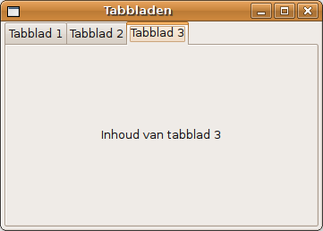 Example of tabs (in Dutch language) - displayed with GNOME on Ubuntu (both free software)